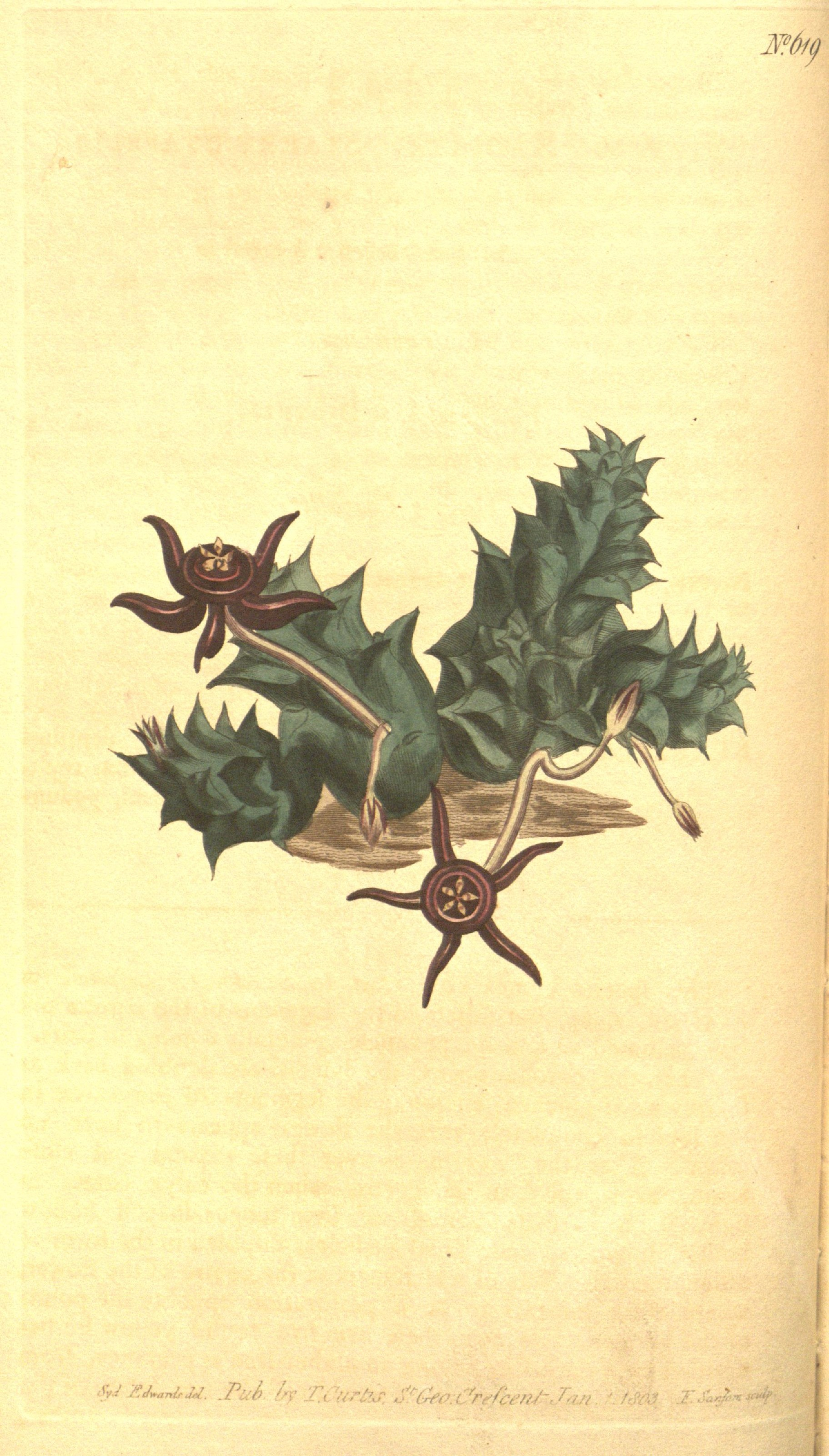 Listed as Stapelia radiata now called Stisseria jacquiniana according to The Plant List